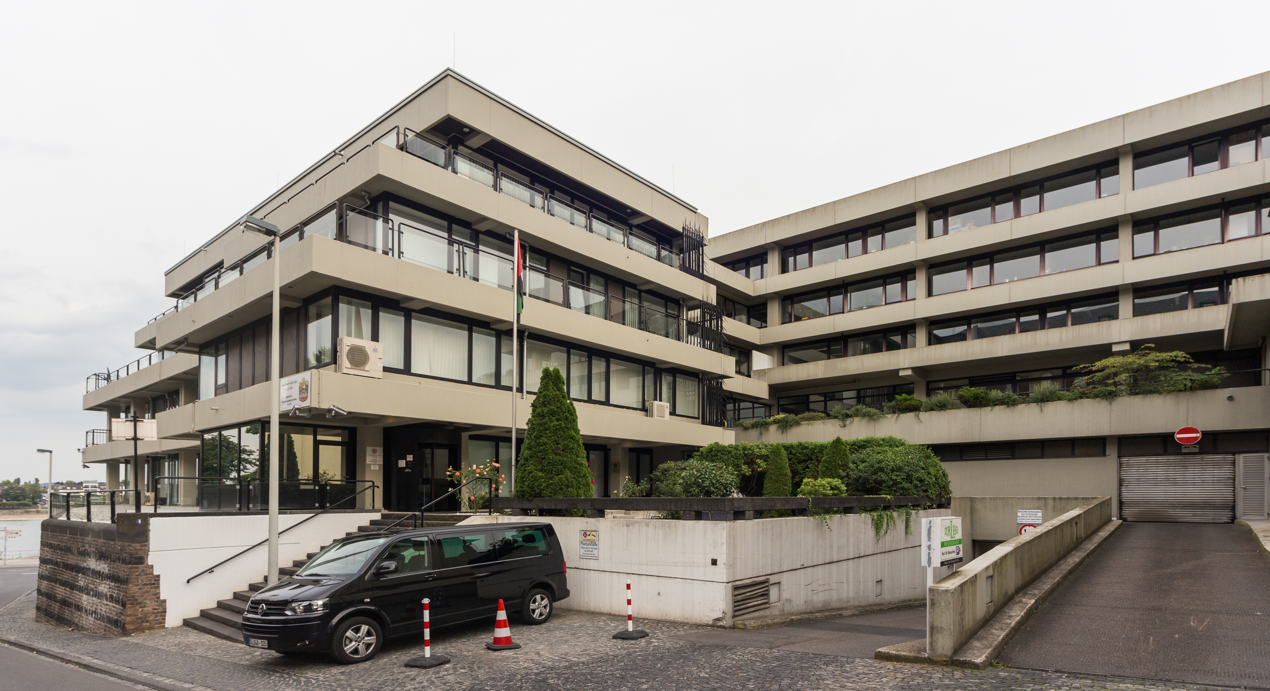 Erste Fährgasse 6 (left side), Adenauerallee 37 (right side), Bonn, district Südstadt